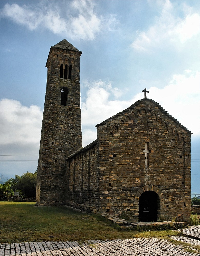 Roman church of Sant Climent - Coll de Nargó (Spain)